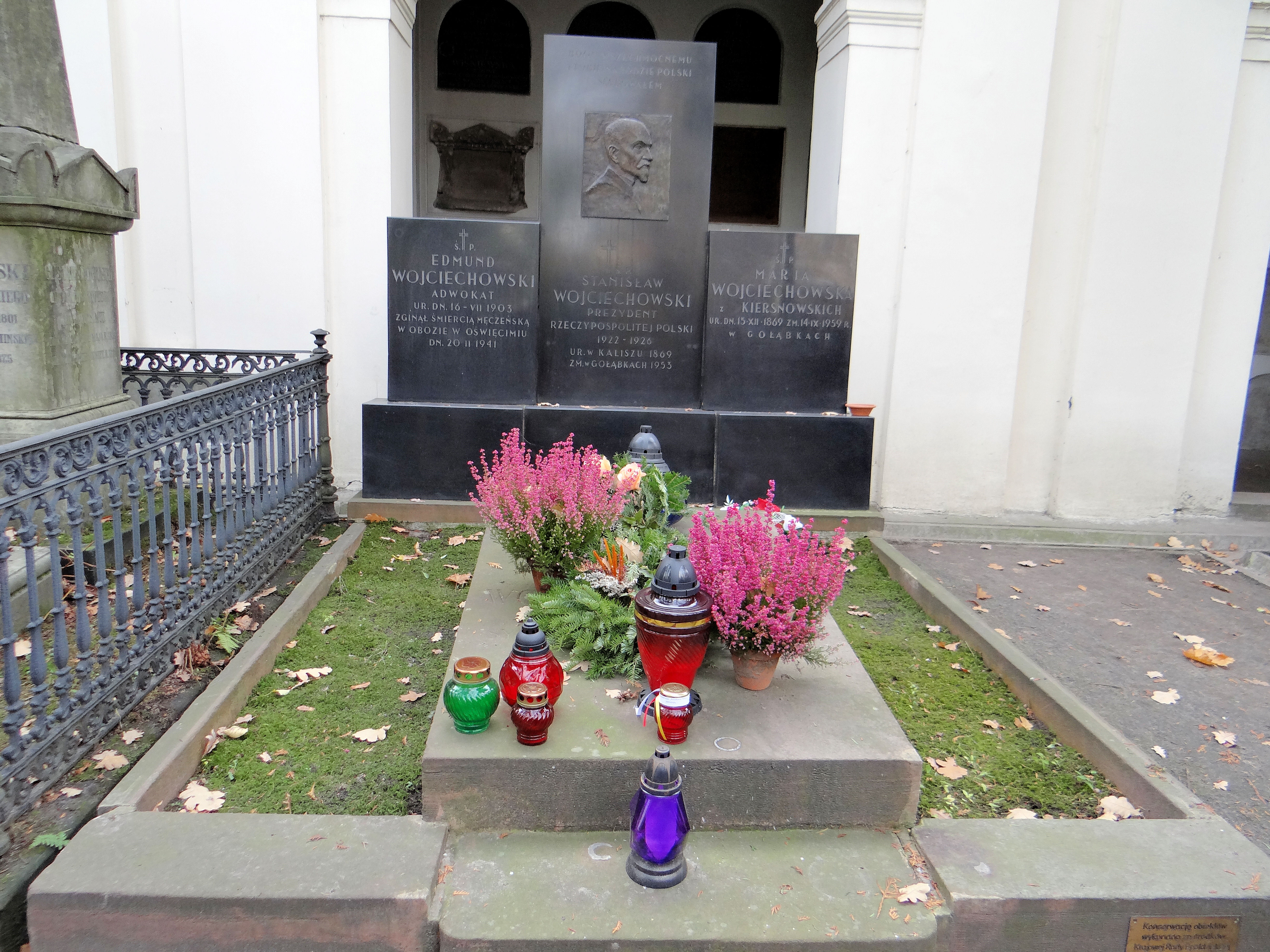 Grave of Stanisław Wojciechowski